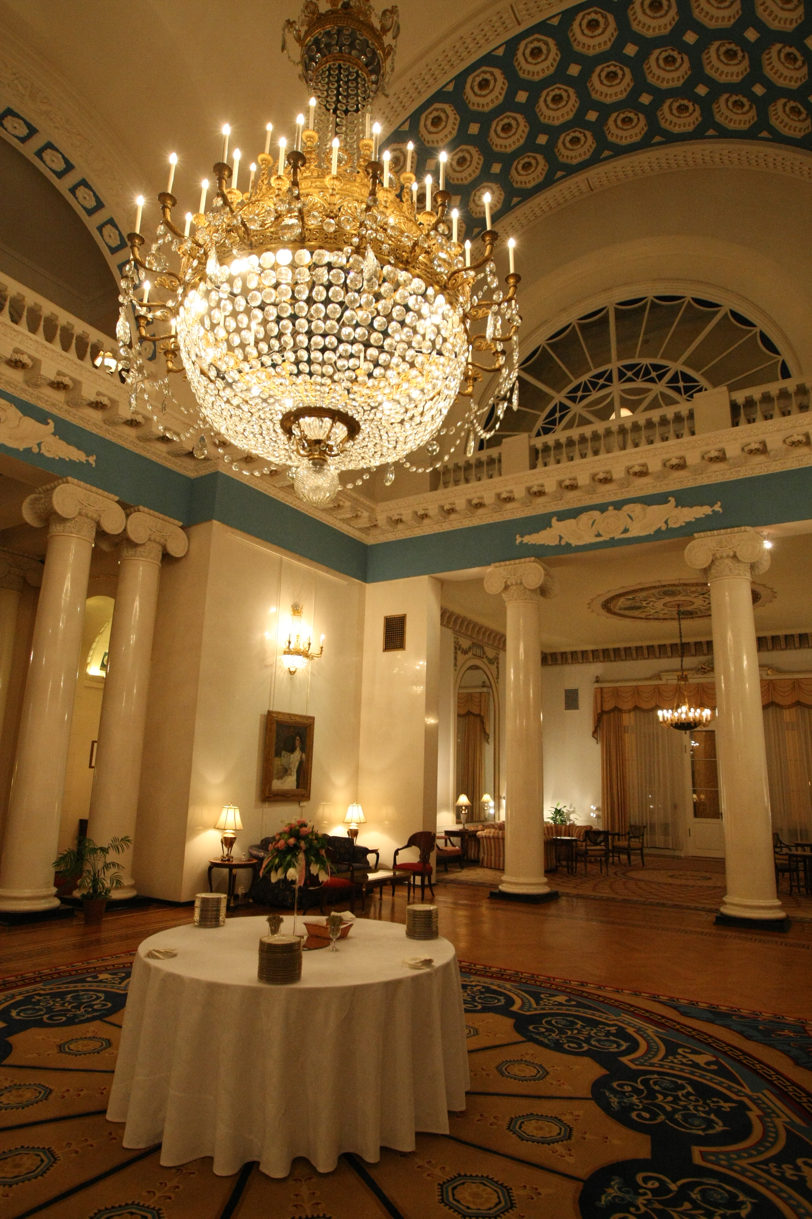 Chandelier Room of Spaso House, residence of U.S. Ambassador to Russian Federation, Moscow